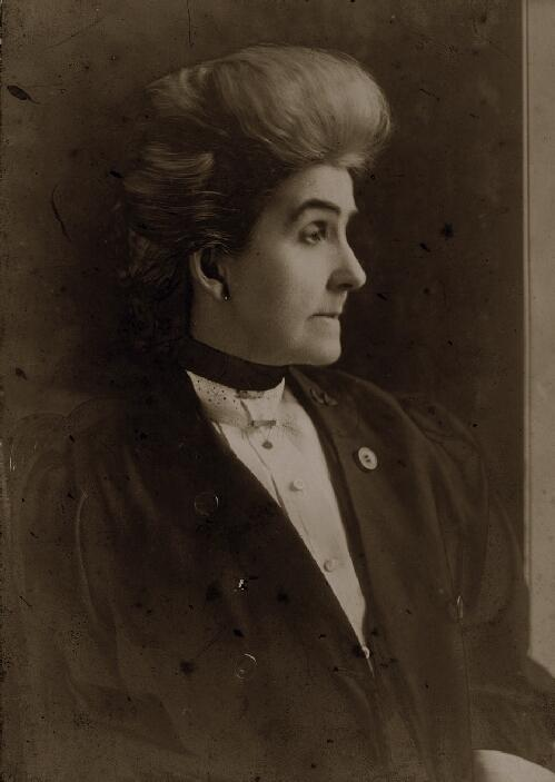 Phoebe Couzins. Photograph by unknown, ca. 1904 Missouri History Museum Photograph and Print Collection. Identifier N23901 {"subject_uri":"http:\/\/collections.mohistory.org\/resource\/21031","local_id":"37236" }